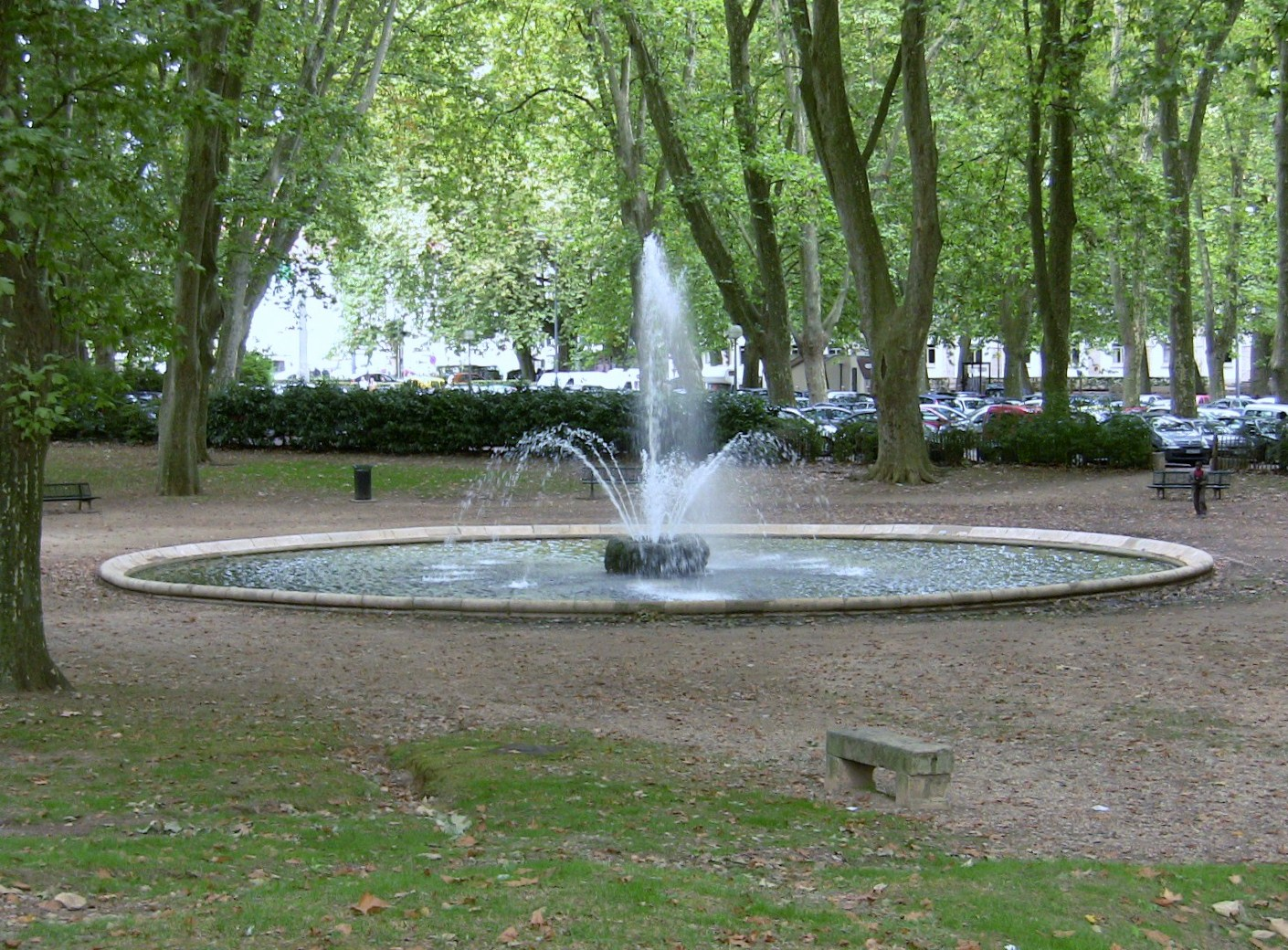 Fountain of the garden of Chamars, in Besançon (Doubs, France)